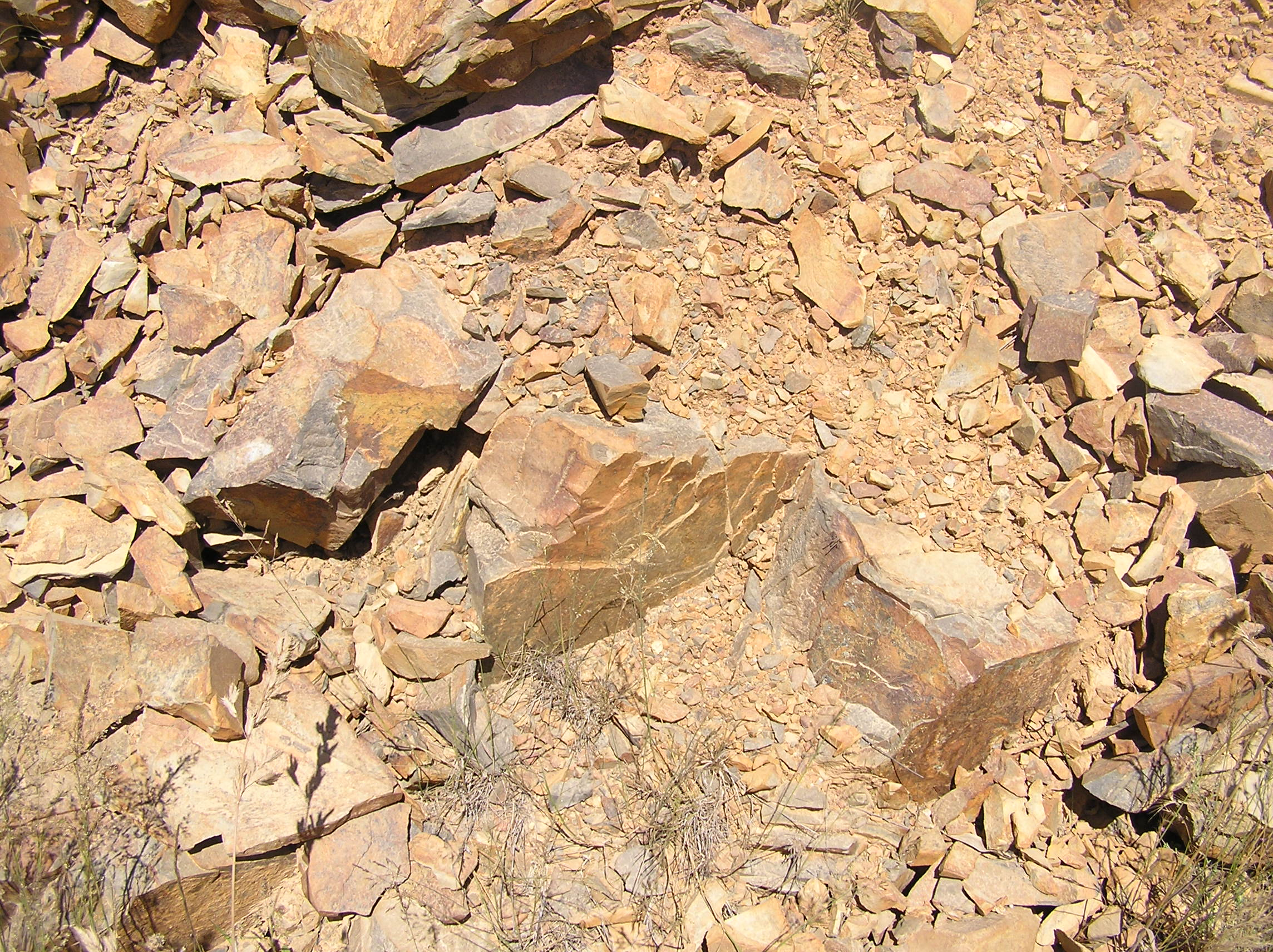 Adaminaby Beds from just south of the ACT